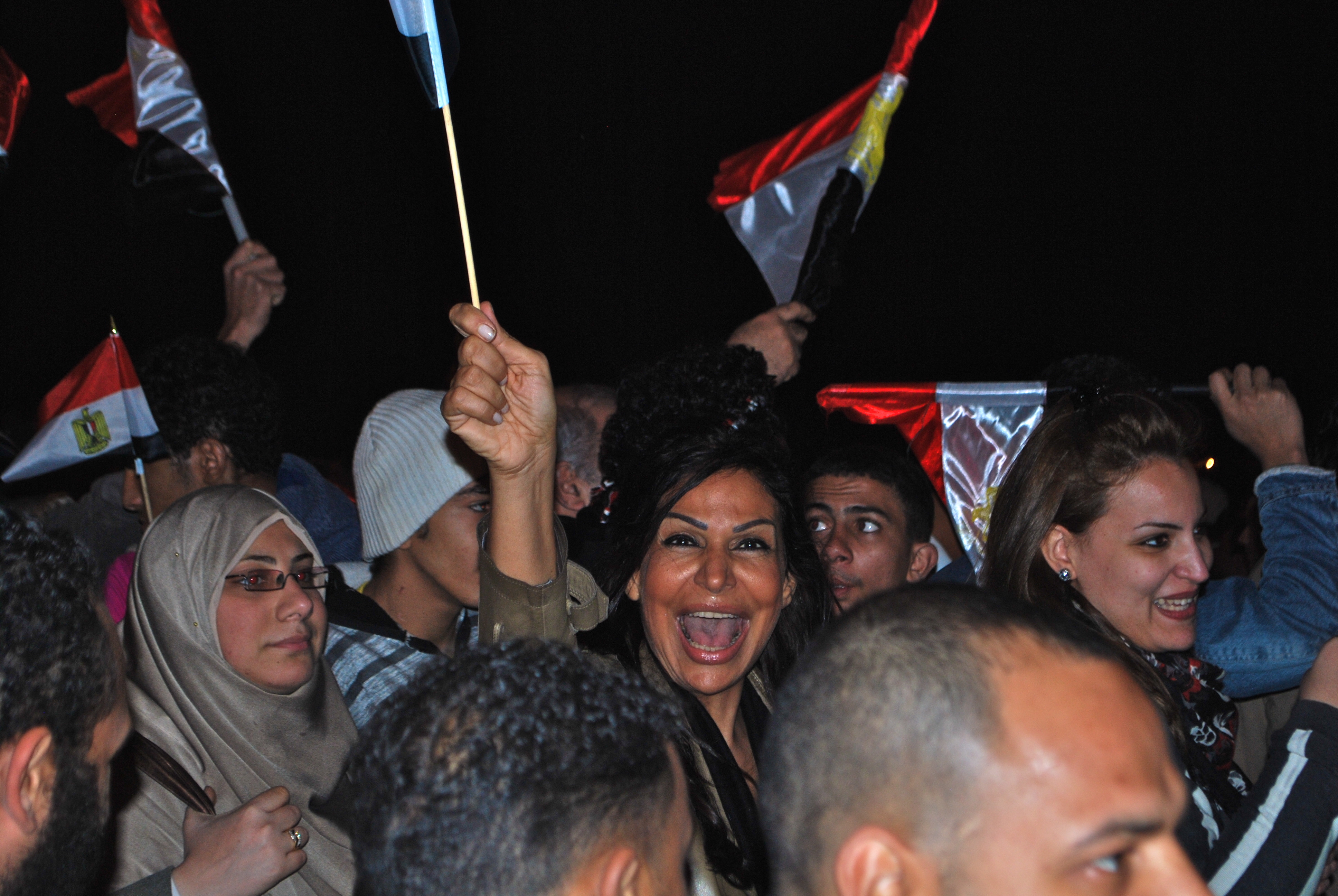 11th of February - A memorable day! Mubarak has resigned! The revolution has succeeded and for the first time in tens of years, Egypt sees hope again!